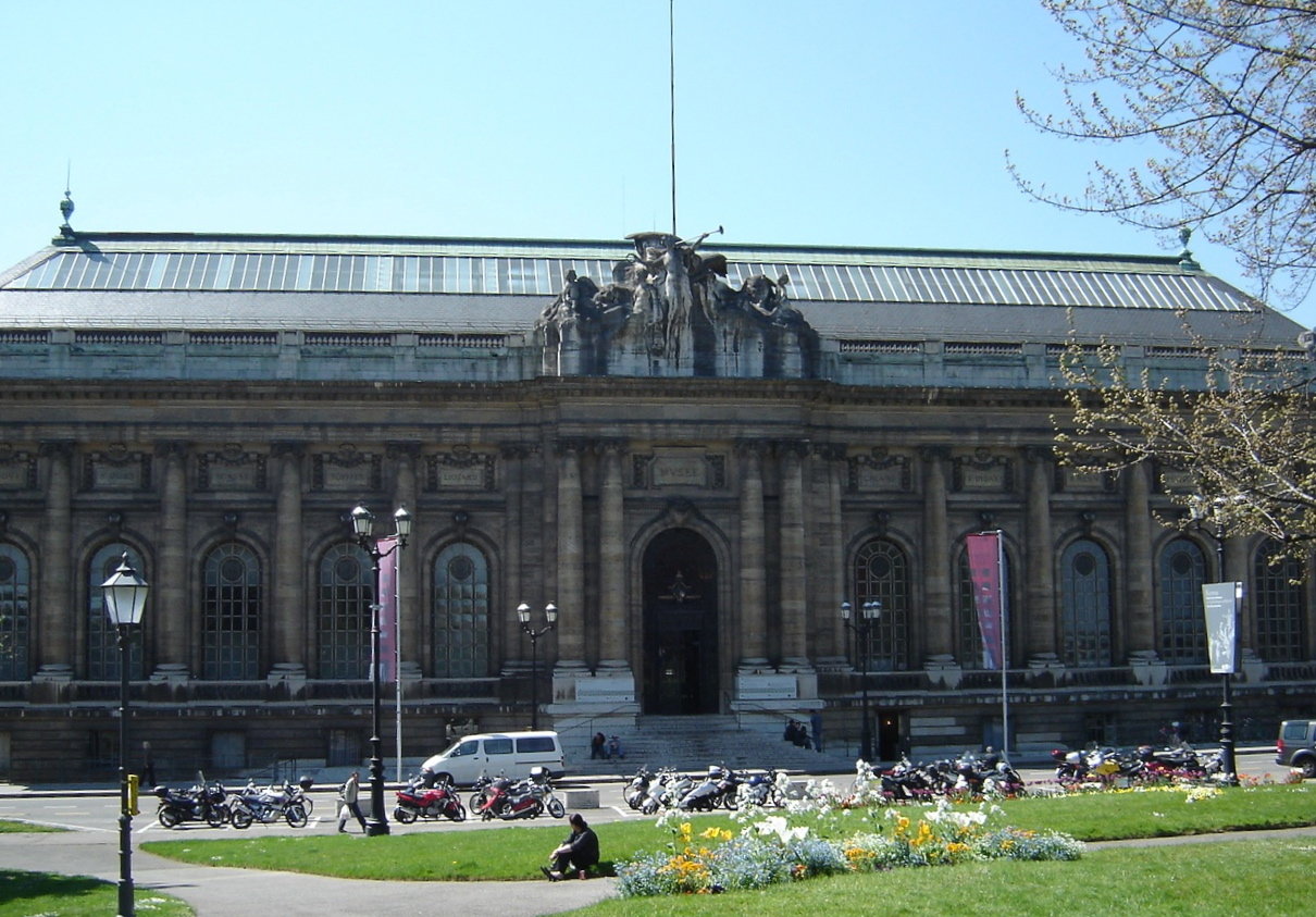 Museum of Arts in Geneva